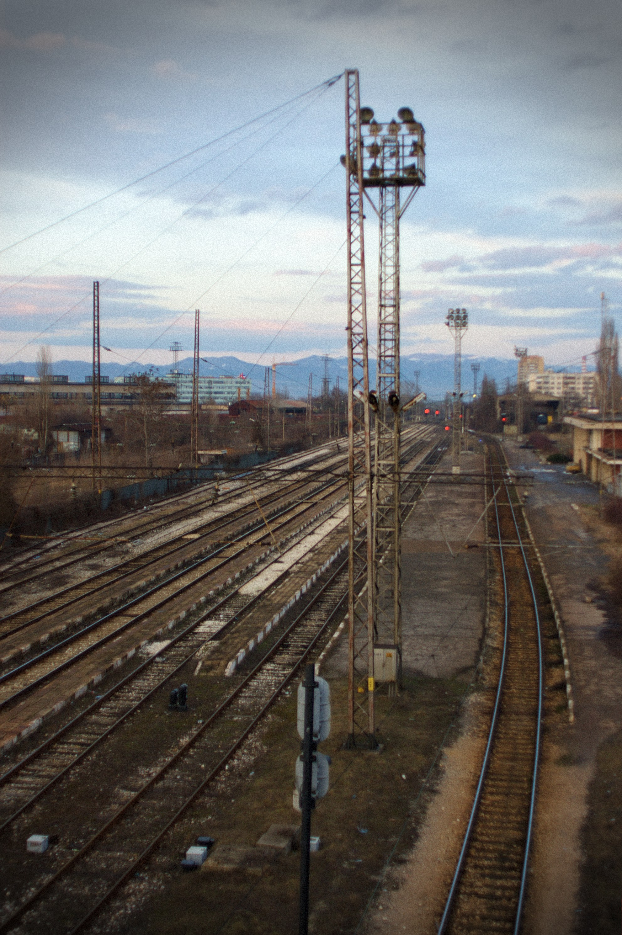 Platforms at 'Zaharna Fabrika' train station in Sofia, Bulgaria